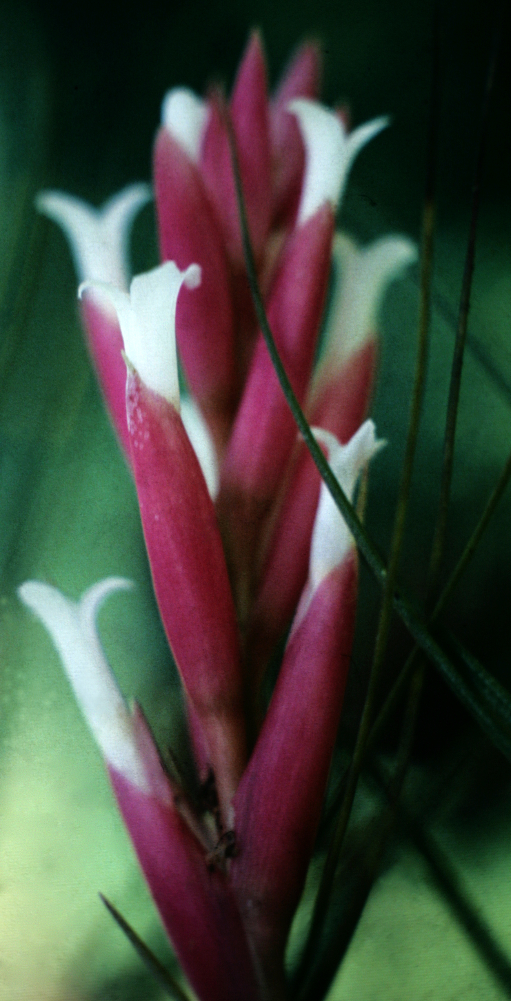 Tillandsia tenuifolia, Suriname